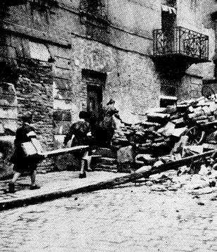 Warsaw Uprising: AK medics in Old Town district